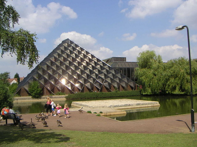 Bletchley Leisure Centre. The pyramid over the swimming pool forms part of the whole facility.